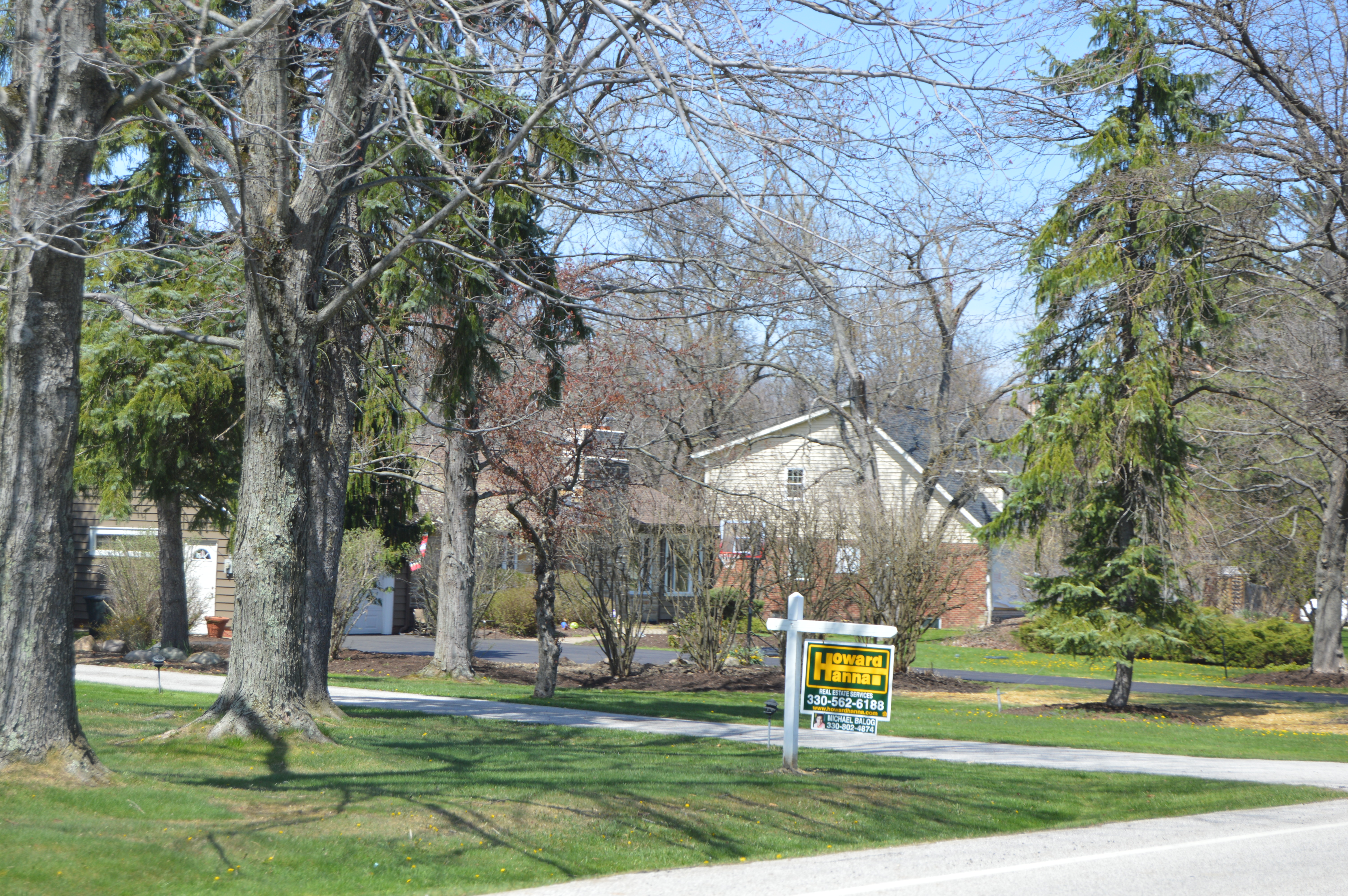 Houses on the western side of Brainard Road south of Harvard Road in Orange, Ohio, United States.